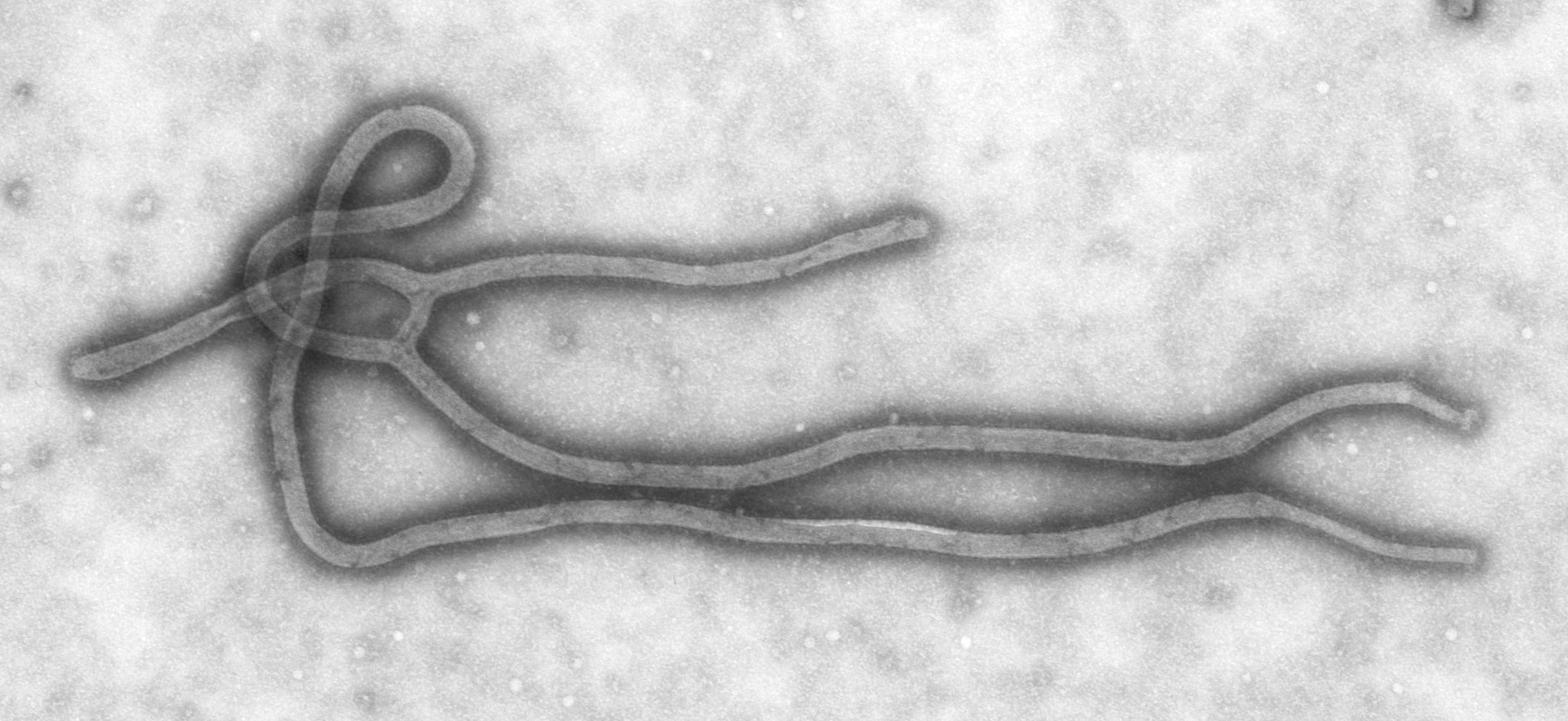 Transmission electron microscopic image which demonstrates the filamentous, branching structure of an Ebola virus particle.